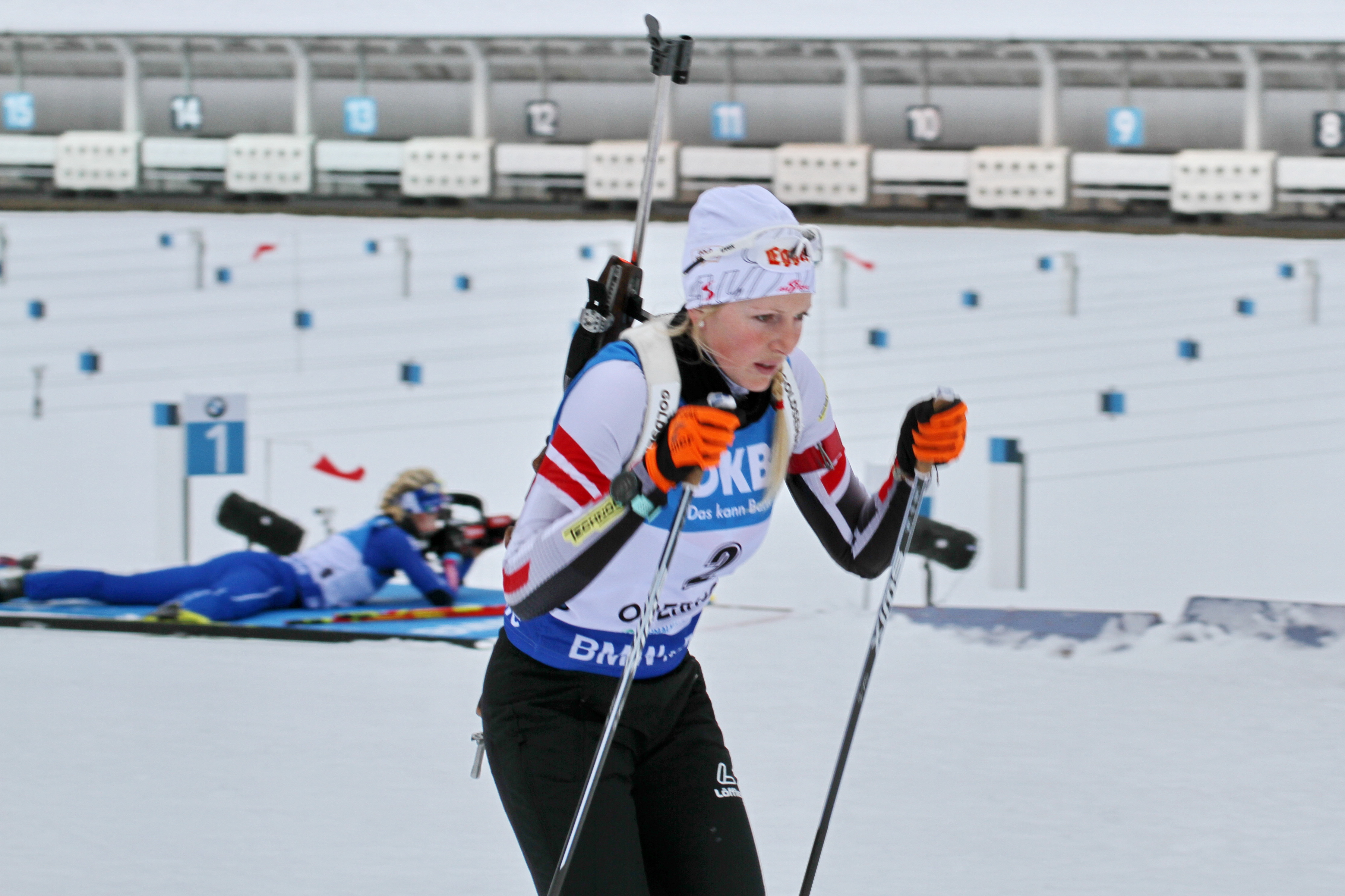 2018 Oberhof Biathlon World Cup - Sprint Women